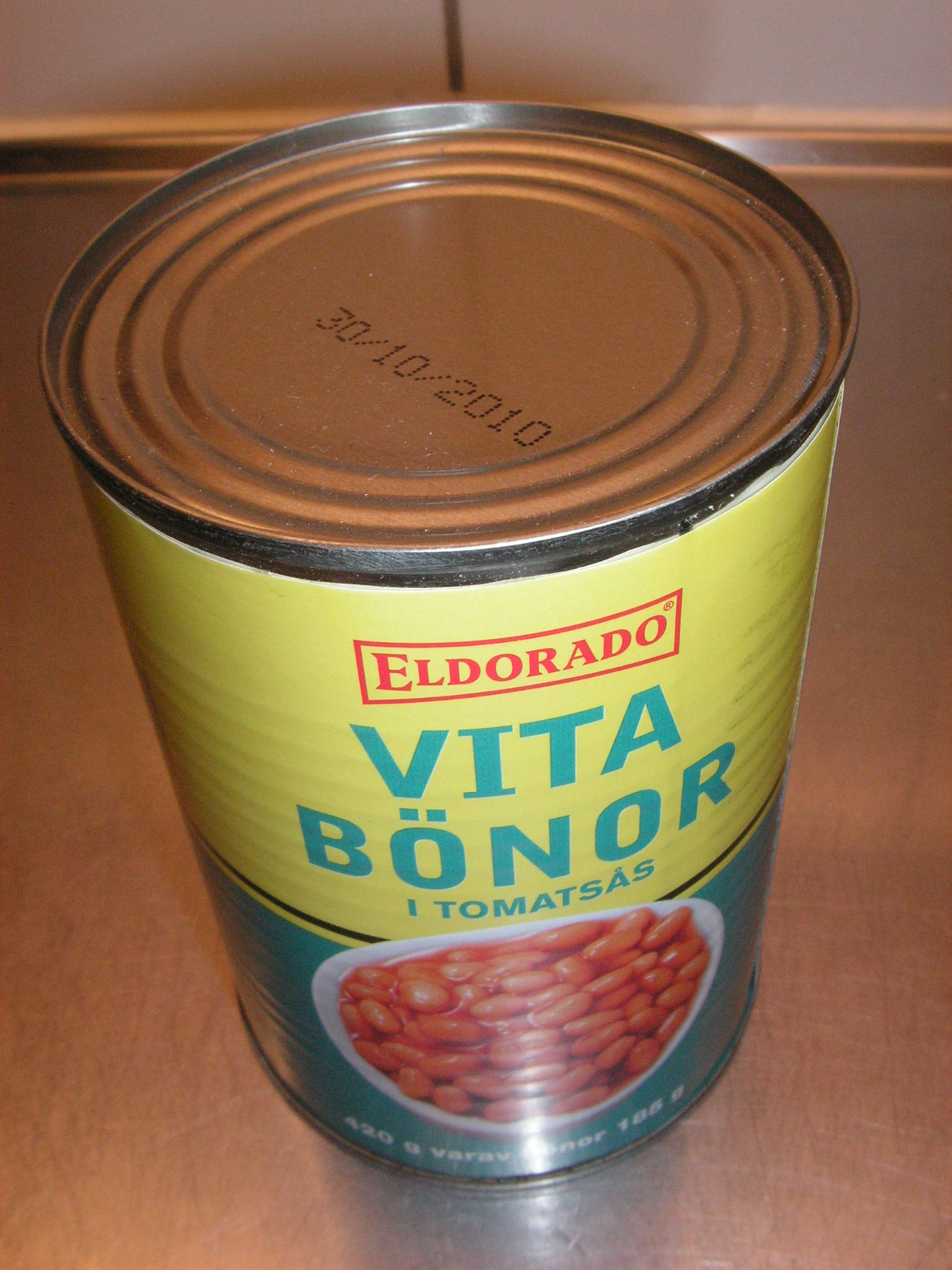 White beans from Swedish manufacturer "Eldorado".